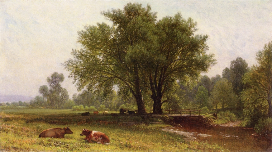 Cows in the Pasture